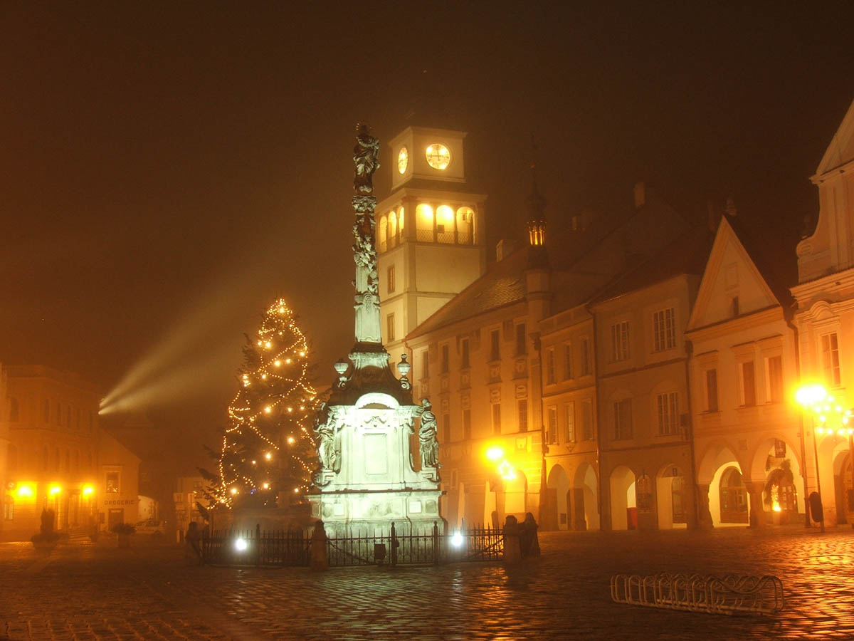 City Třeboň (Czech Republic) - Masaryk's square in Christmas time 2006